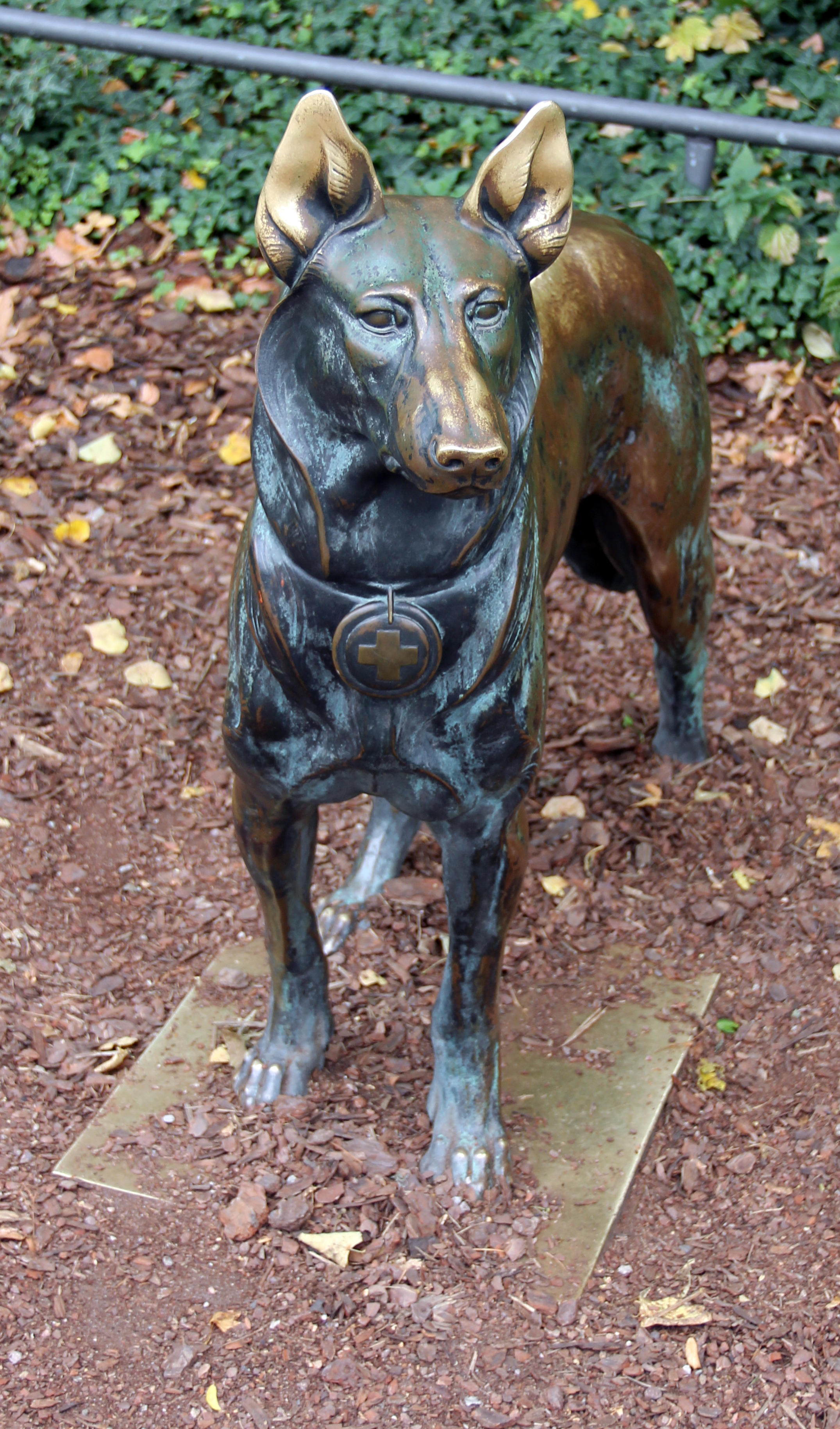 Sculpture, "Blindenhund" by Otto Richter, Hardenbergplatz 8, Berlin-Tiergarten, Germany